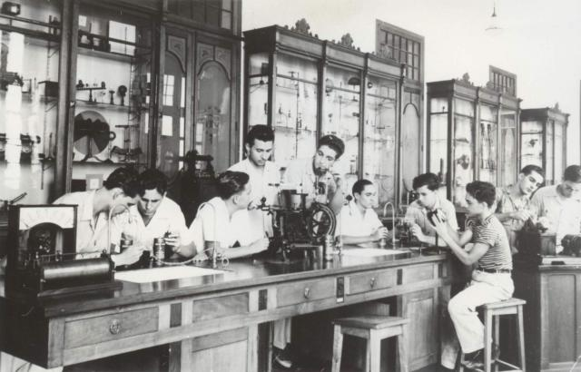 Fidelcastro colegio de belen 1943. Havana Cuba